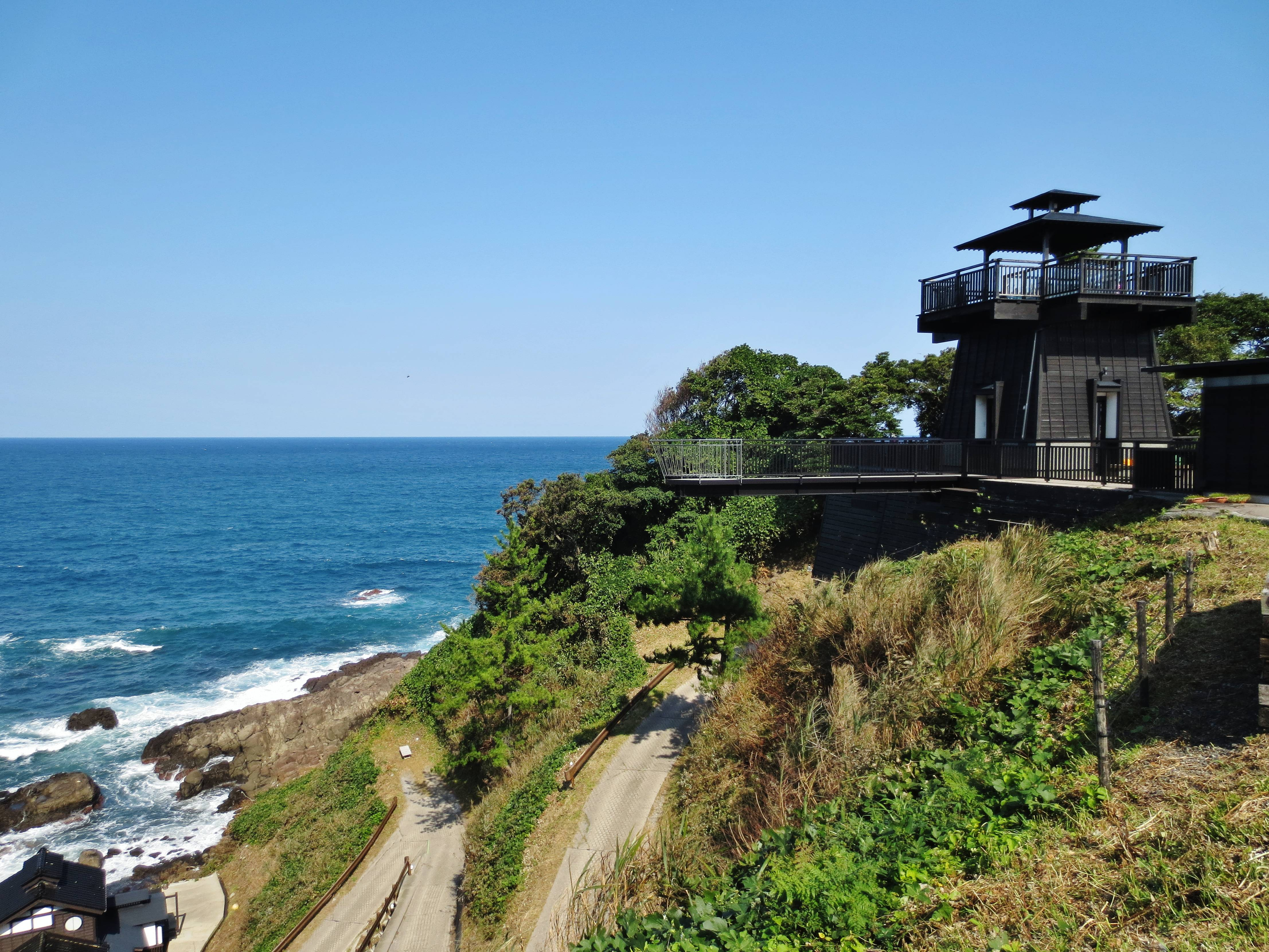 Yoshigaura Onsen.